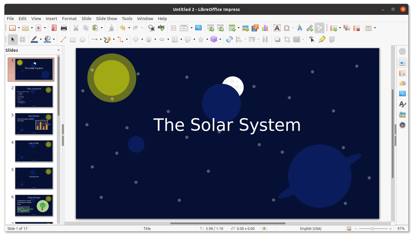 Screenshots of LibreOffice Impress 6.4 running on Ubuntu 20.04.